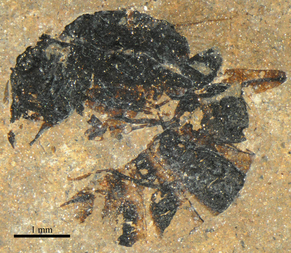 Pachycondyla eocenica Holotype gyne in lateral view. Specimen number SMFMEI10889